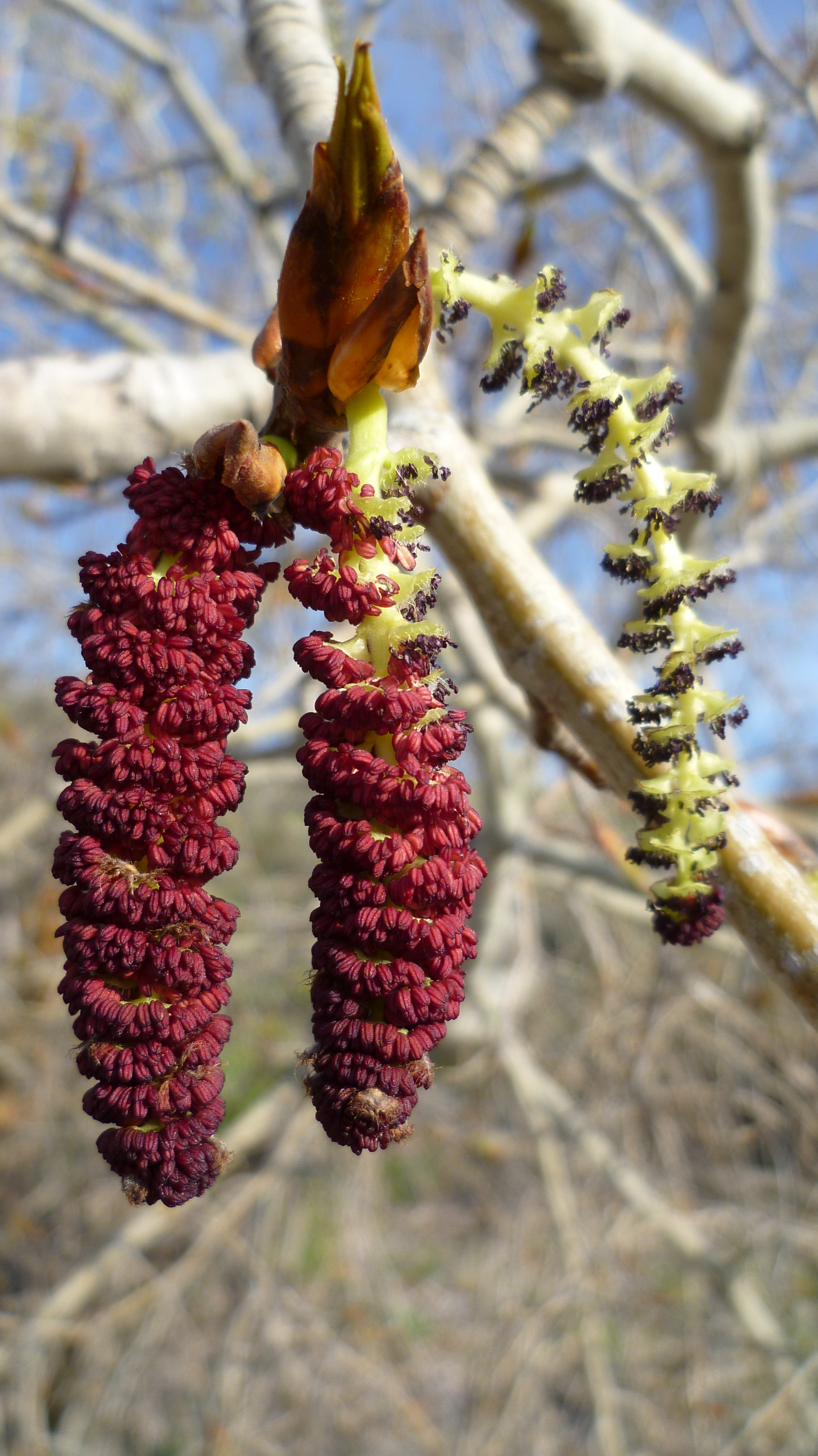 Populus trichocarpa just emerging male catkins next to the Columbia River in East Wenatchee Douglas County Washington